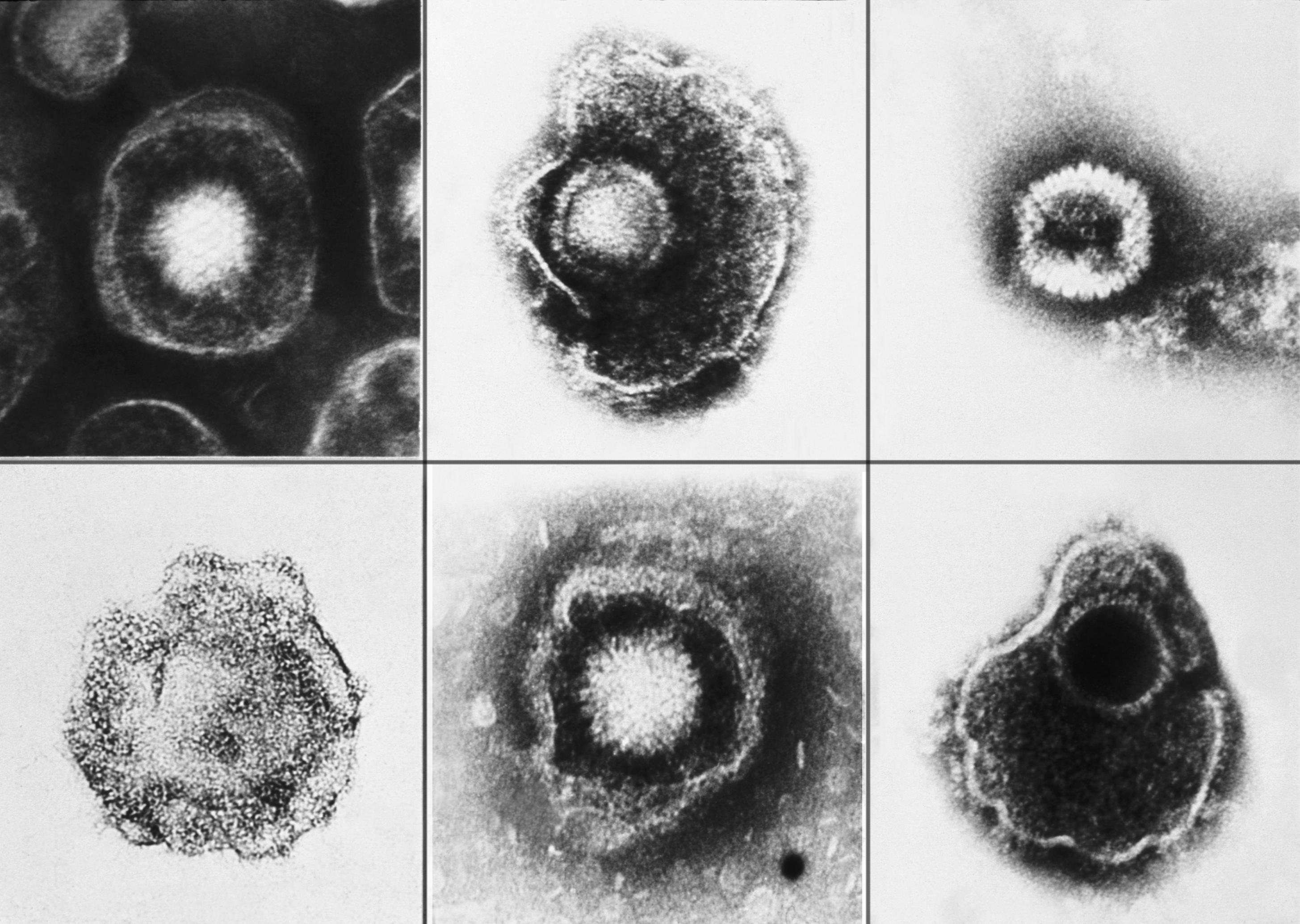 Various viruses from the Herpesviridae family seen using an electron micrograph Amongst these members is varicella-zoster (Chickenpox), and herpes simplex type 1 and 2 (HSV-1, HSV-2).